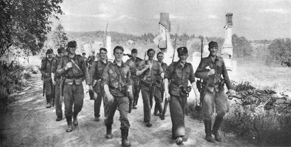 Finnish soliders in Värtsilä during the Continuation War